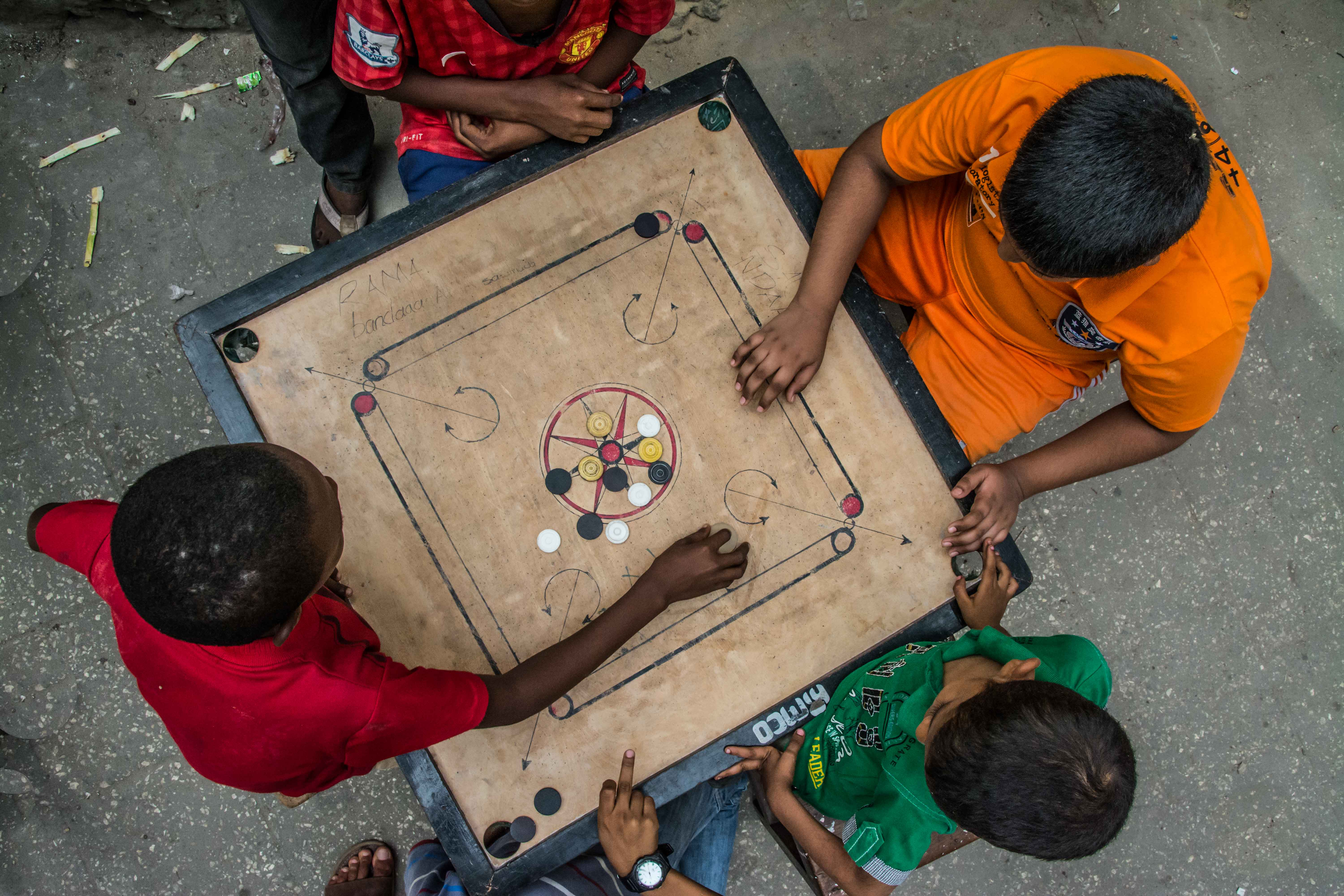 This is an image of Cultural Fashion or Adornment from Tanzania